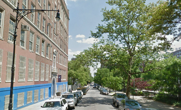 CSS and Morningside Park.